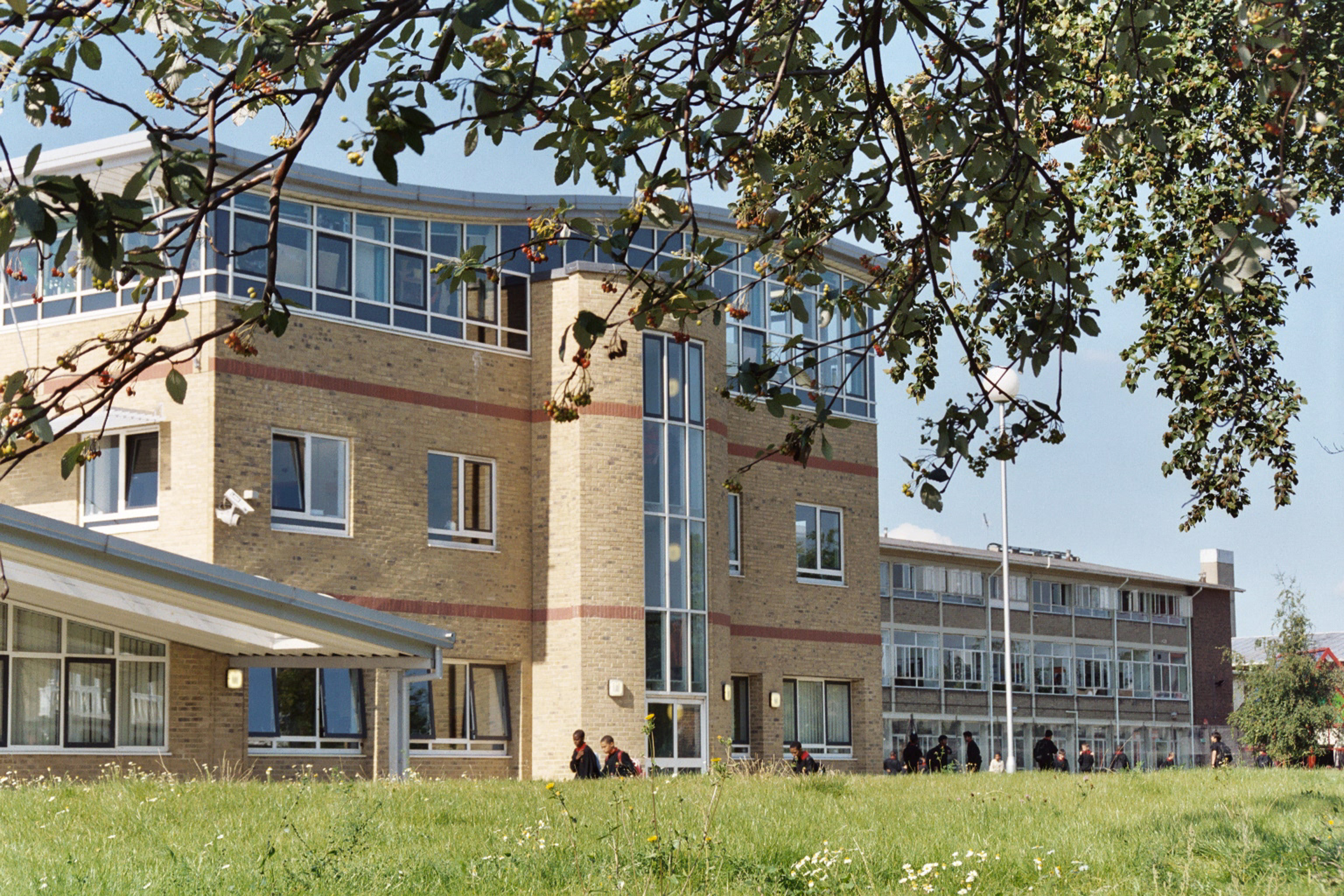 photo of Queens Park Community School front. Image released into public domain by Mr Mike Hulme on behalf of QPCS